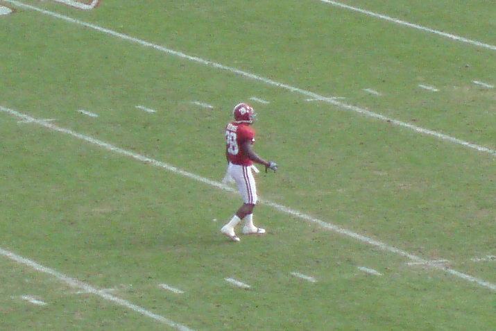 Javier Arenas lines up to return a punt... and sets the Southeastern Conference record for punt returns in a career.